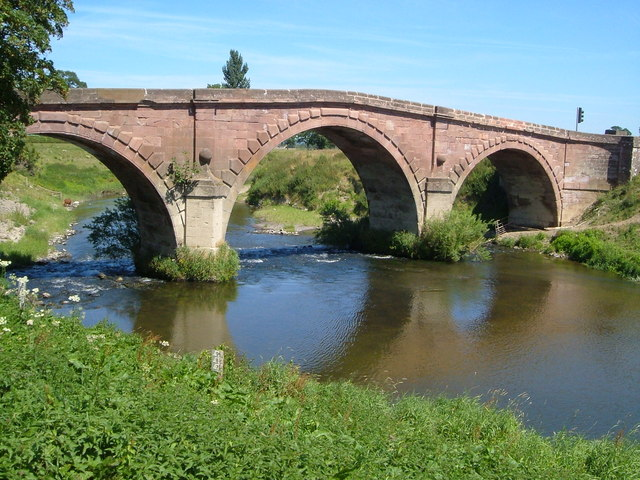 Llandrinio Bridge. Built over the Severn in 1775; seen from the Severn Way, looking downstream.